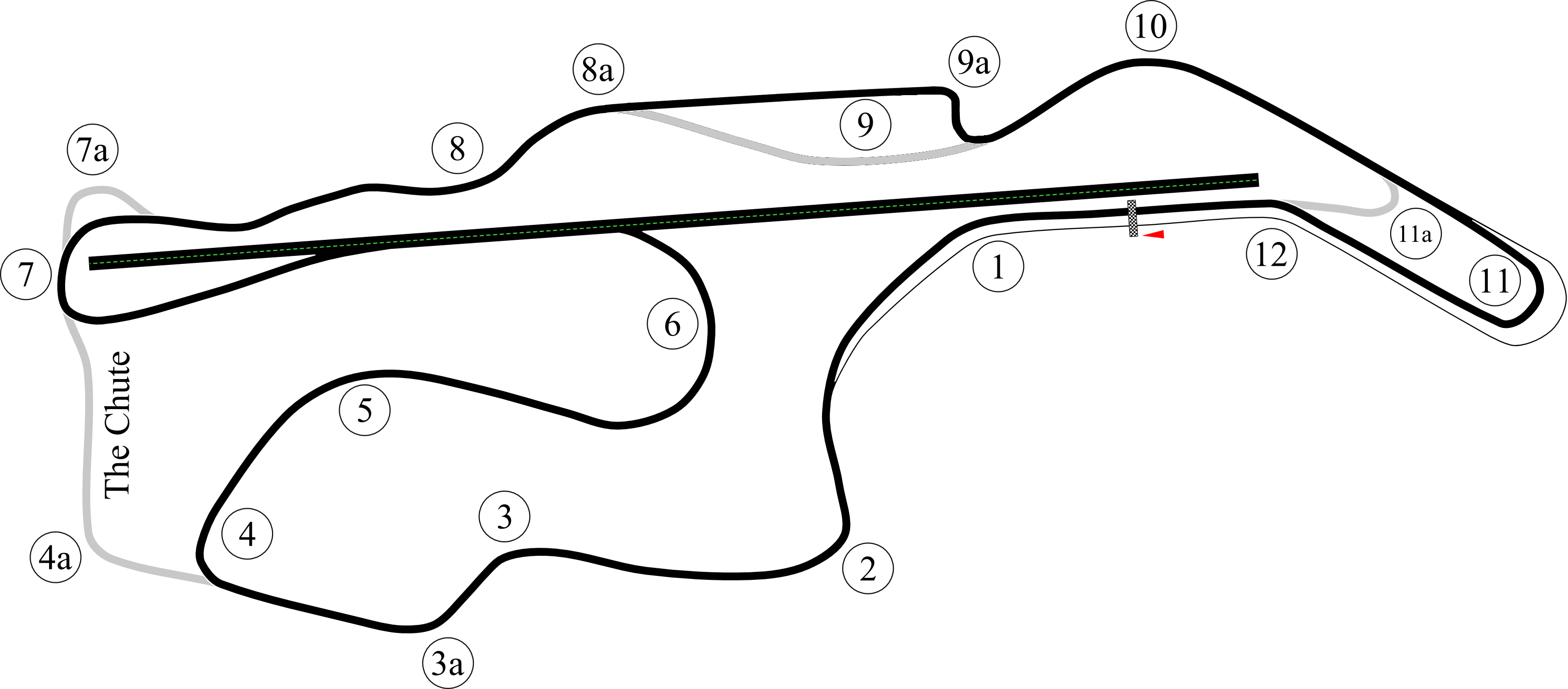 Track map of the Sonoma Raceway in California, United States with focus on the layout used by the World Touring Car Championship.